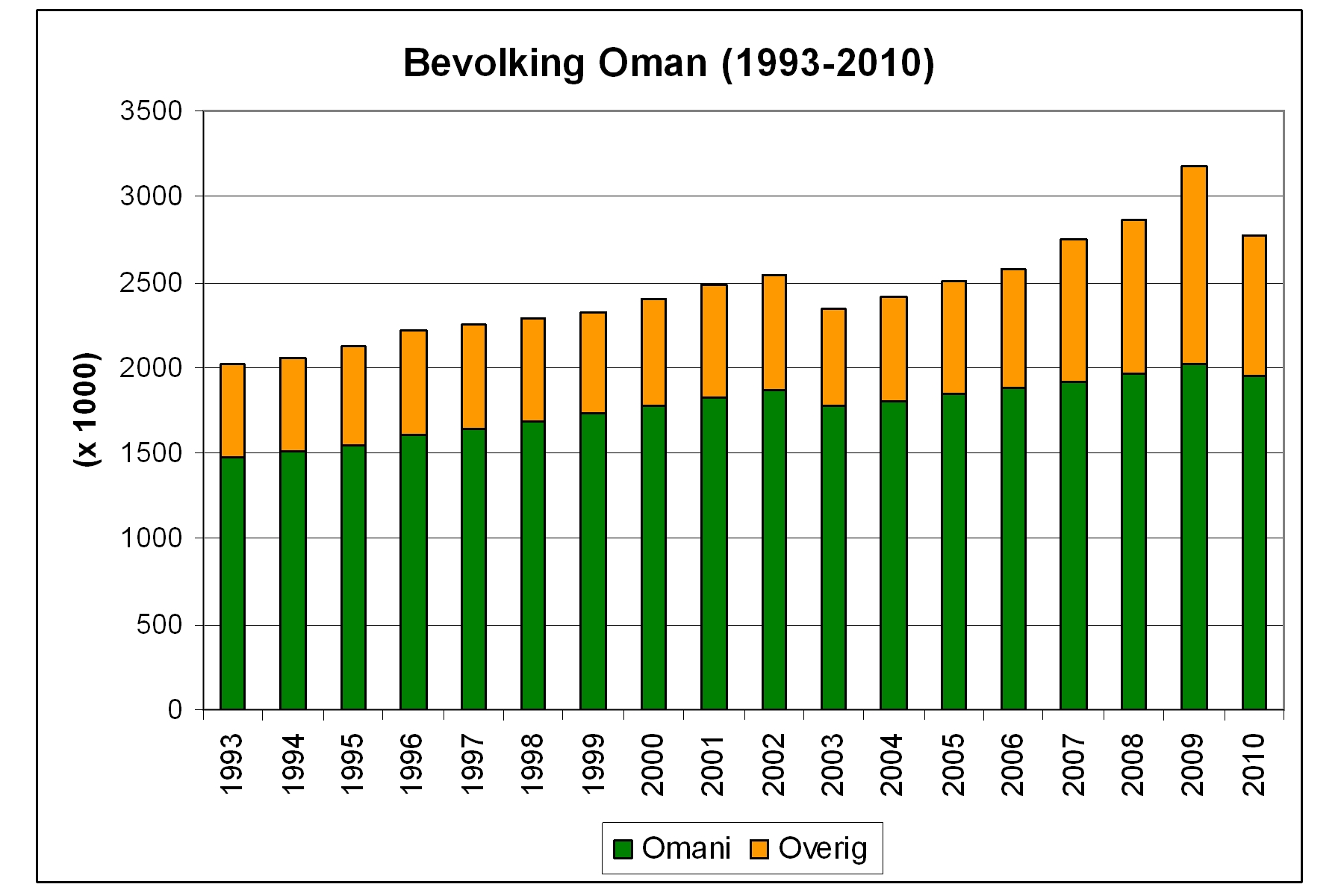 Oman population 1993-2010. Source: Ministry of National Economy (Oman) / Census 2010: Statistics